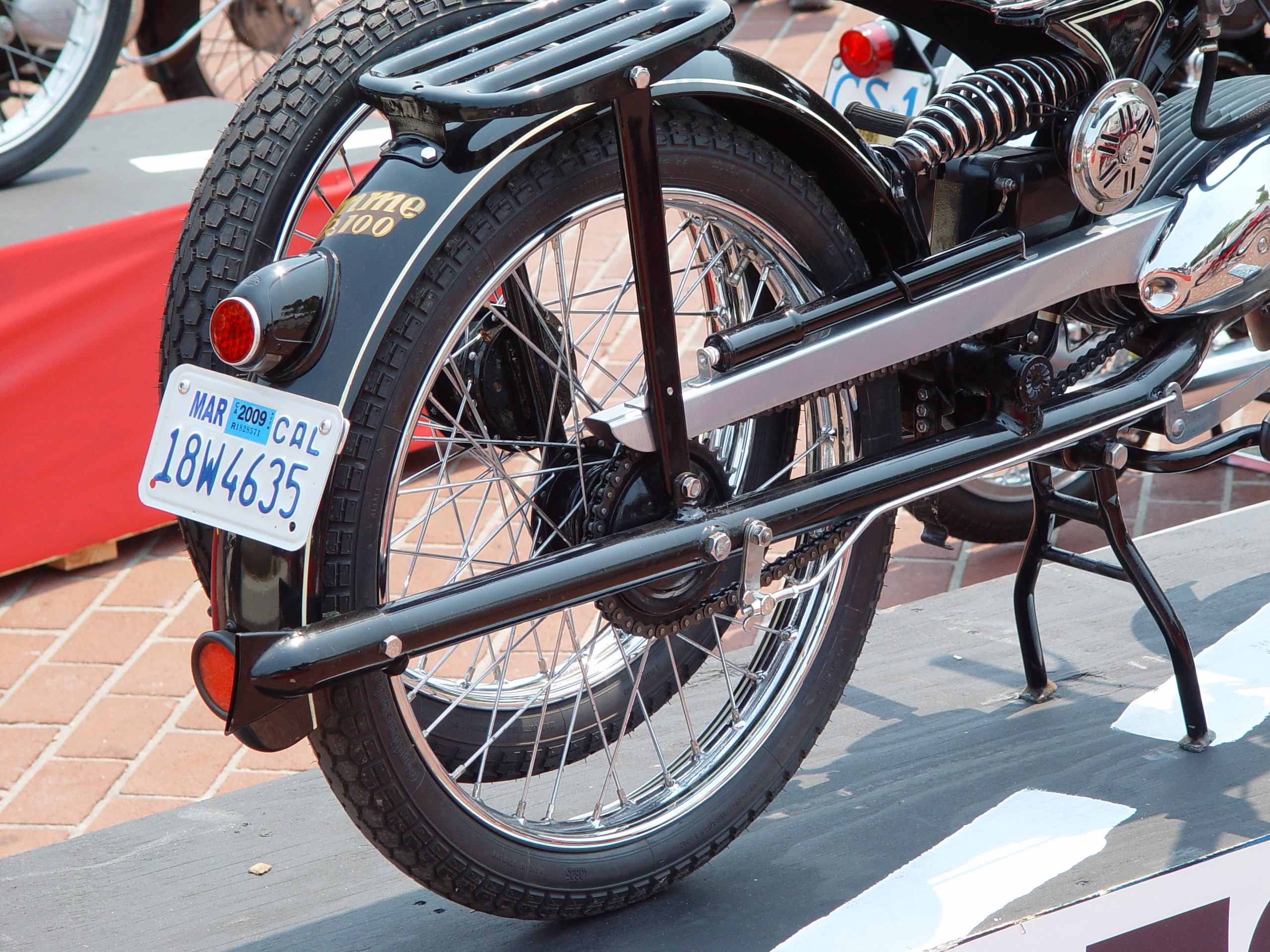 Right view of rear of Imme R100, showing rear suspension, swingarm/exhaust pipe, and tyre pump on chainguard